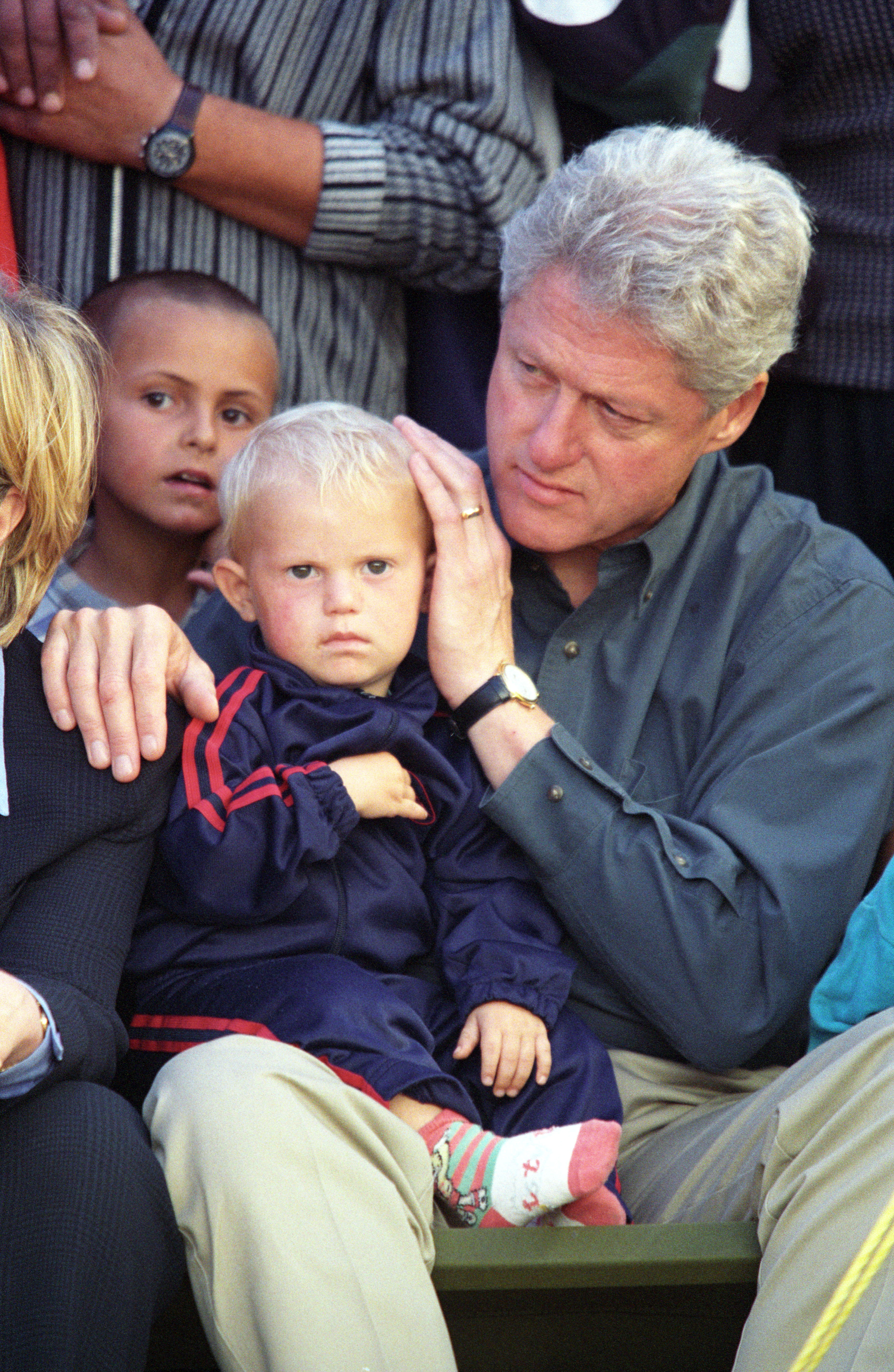 President Clinton comforts a young Kosovar refugee at Stenkovic 1 Refugee Camp near Skopje, Macedonia